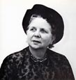 Image of Melva Lind from the 1966 Gustavian